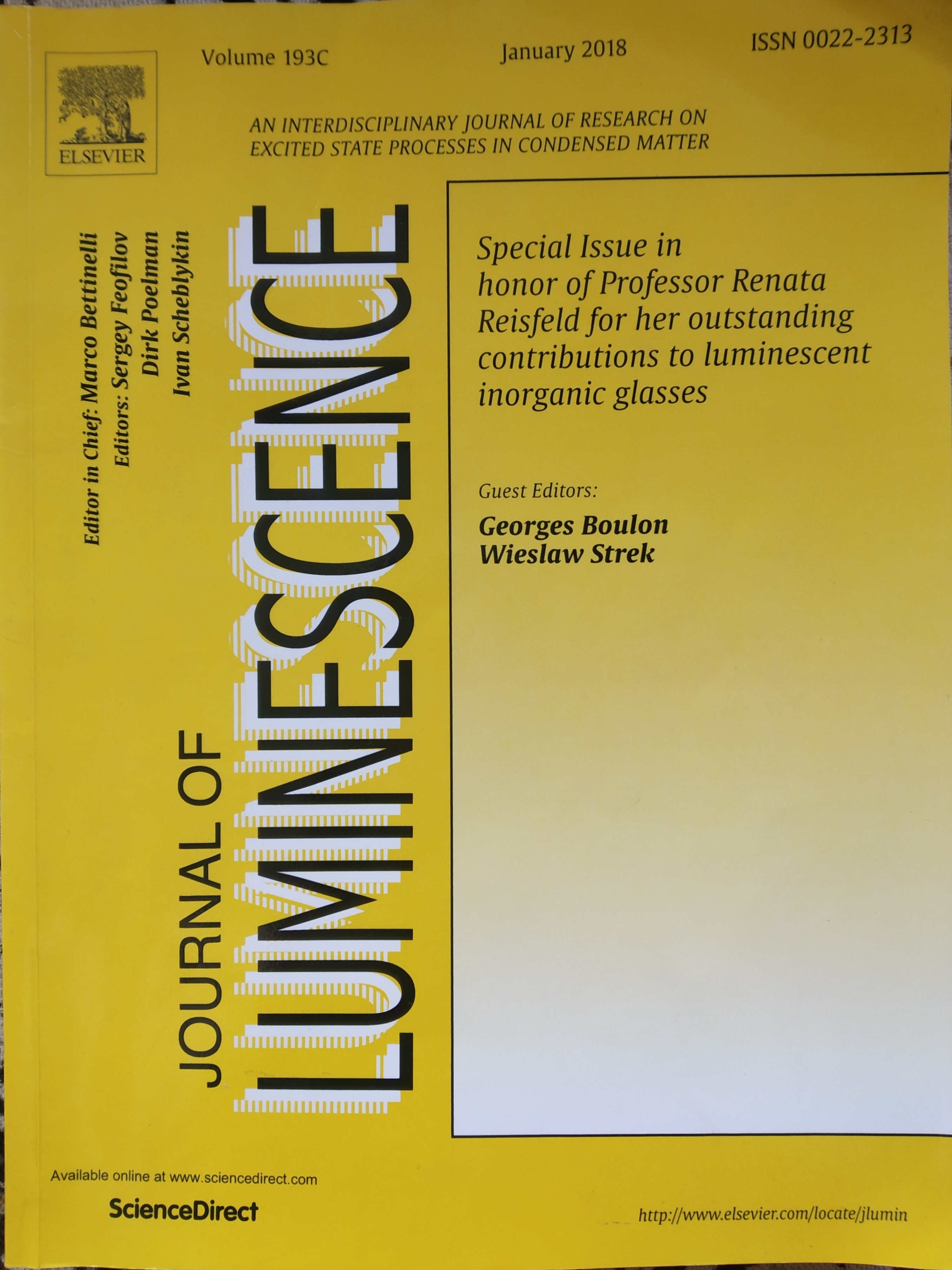 Cover of Special Issue of Journal of Luminescence (2018) in Honor of Professor Renata Reisfeld